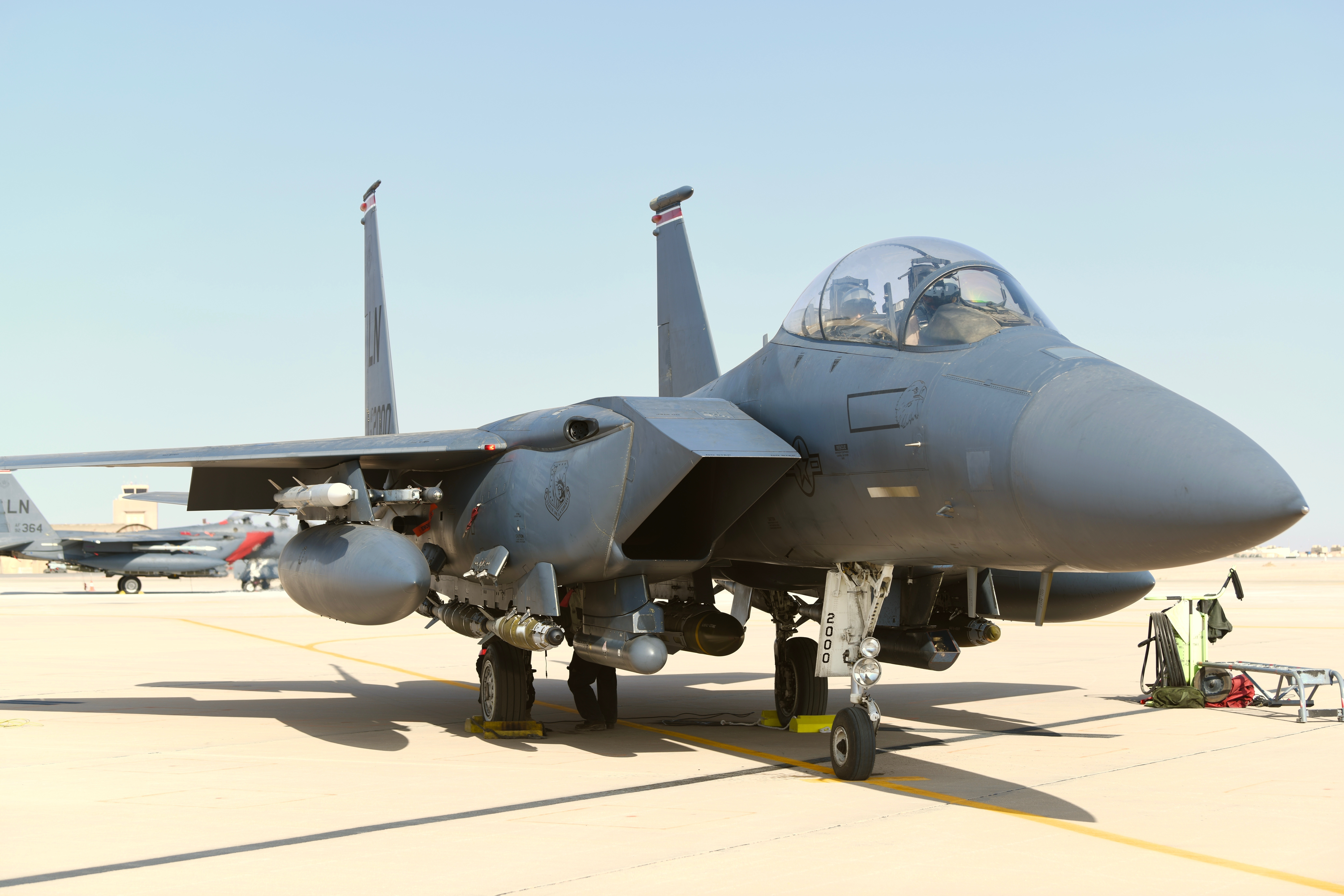 An F-15E Strike Eagle assigned to the 494th Expeditionary Fighter Squadron sits on the flight line prior to a sortie at Prince Sultan Air Base, Kingdom of Saudi Arabia, Jan. 8, 2020. The F-15E Strike Eagle is a dual-role fighter designed to perform air-to-air and air-to-ground missions, demonstrating U.S. Air Forces Central Commands’ posture to compete, deter, and win against state and non-state actors. (U.S. Air Force photo by Tech. Sgt. Michael Charles)